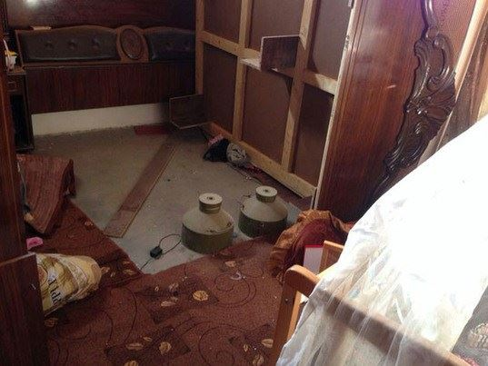 The Maglan special forces unit found explosives two steps away from a baby's bed 26/7/2014 For more updates: The Israel Defense Forces Facebook The Israel Defense Forces blog Follow us on Twitter